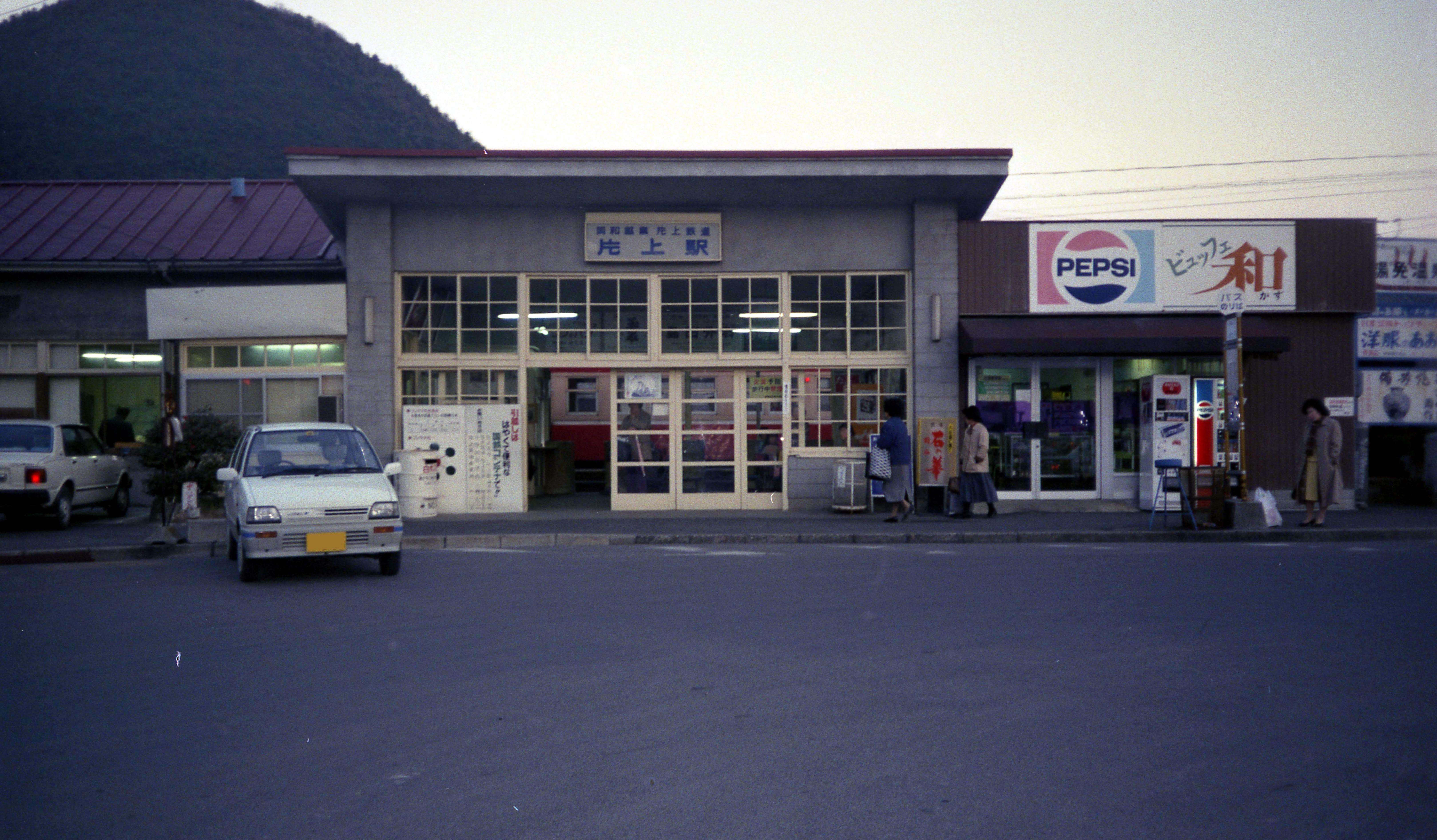 The building of Katakami Station,Katakami Railway(before abolished)